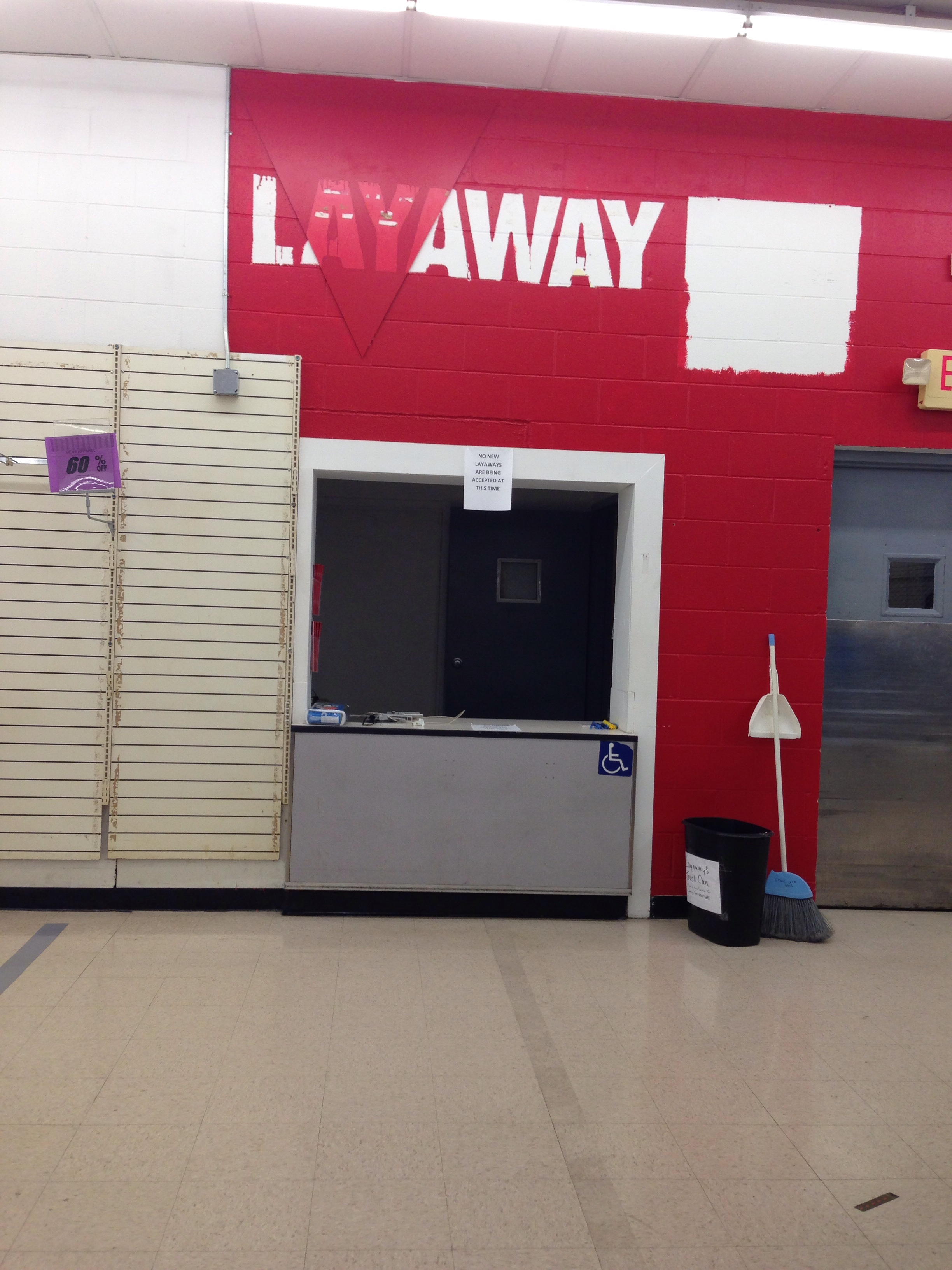 Kmart closing in Lancaster, Ohio